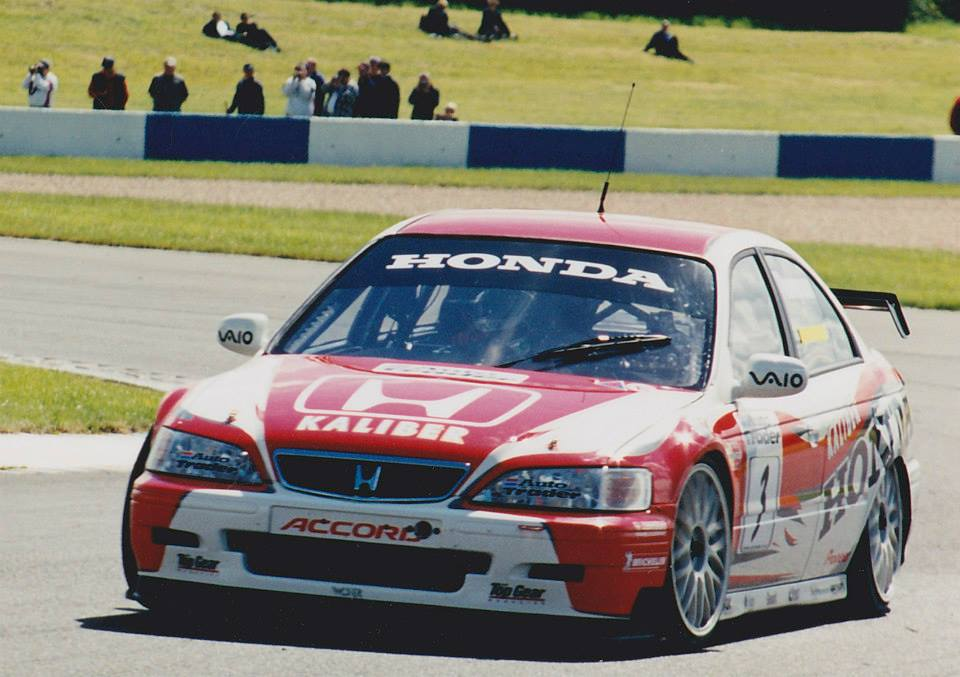 BTCC 1999 James Thompson Honda Accord, Donington park.